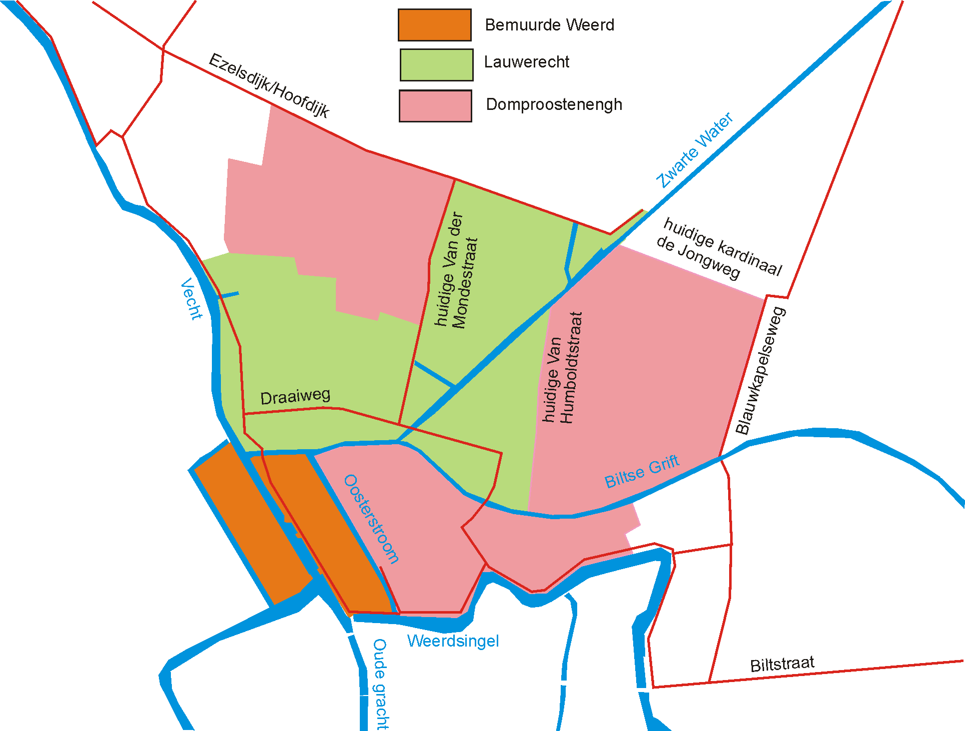 map of the jurisdictions of the domchurch and lauwerecht in Utrecht